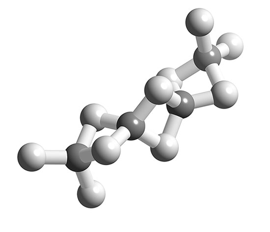 structure of berylliumhybride